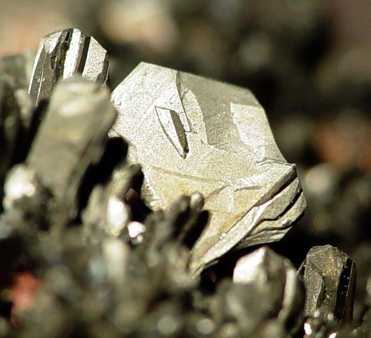 Arsenic Locality: Ronna Mine, Kladno, Central Bohemia Region, Bohemia (Böhmen; Boehmen), Czech Republic (Locality at ) Size: miniature, 4.2 x 3.2 x 3 cm Native Arsenic CRYSTALS Native arsenic is itself rare, but to have crystals of it makes this a true find. These very rare mm-size crystals have remarkably good form, luster, and a sort of steely-gray color. This is an important piece, for a native elements suite! It comes from Josef Vajdak, one of the recognized experts on the exceptionally interesting mineralogy of Kladno 4.2 x 3.2 x 3 cm